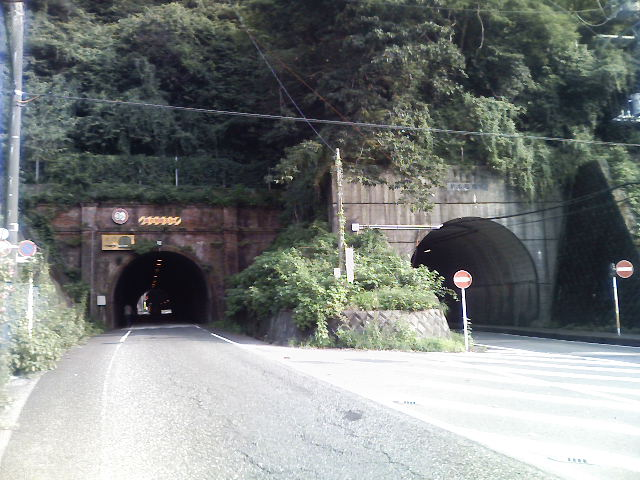 Nagoe_tunnel, Kanagawa_ken, Japan